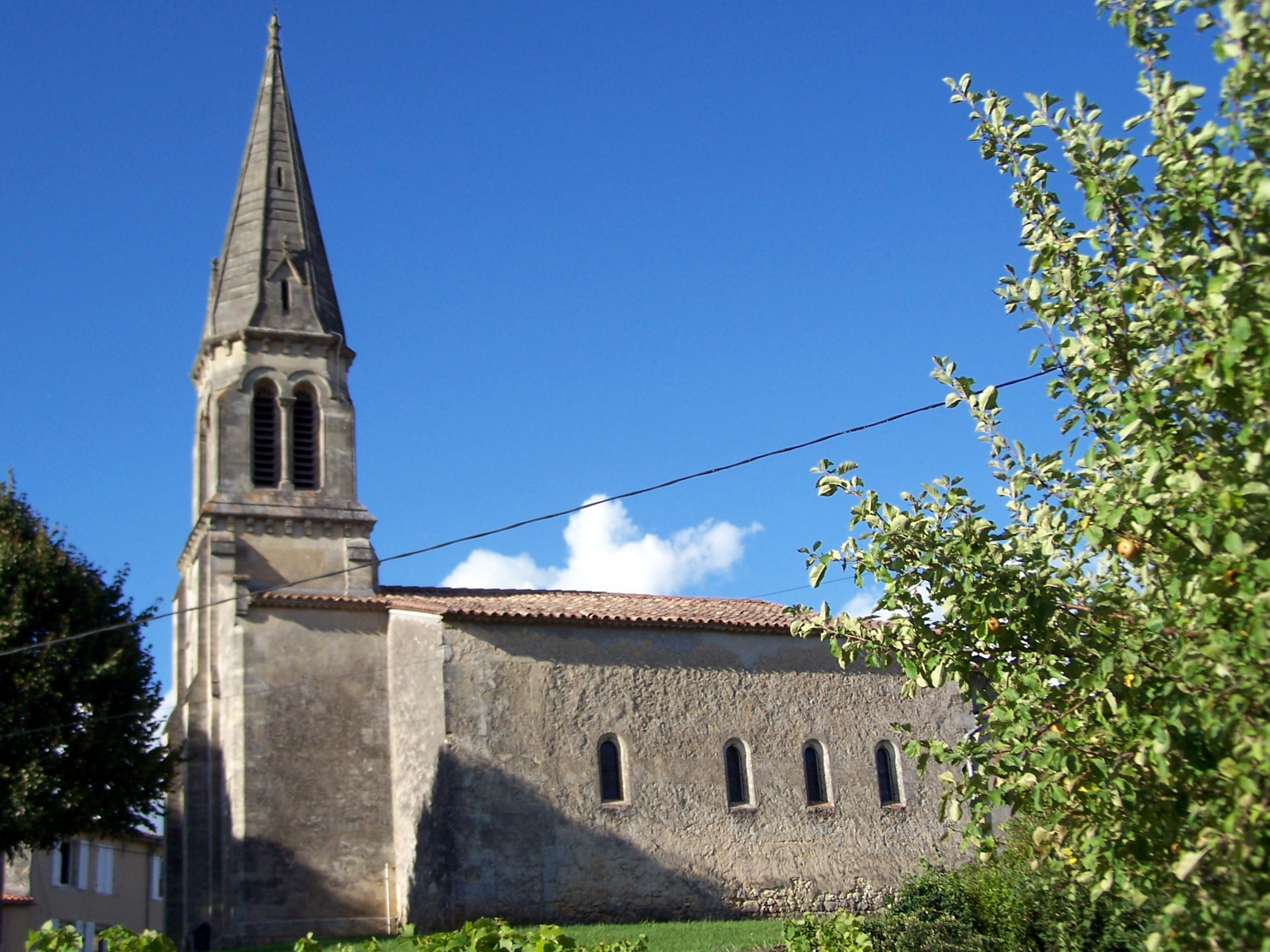 Saint Martin church of Villenave-de-Rions (Gironde, France)